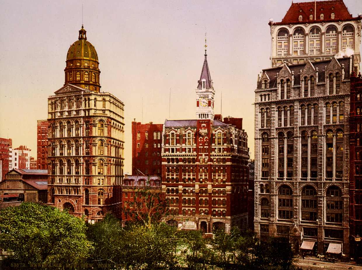 Photochrom print of Park Row, New York.